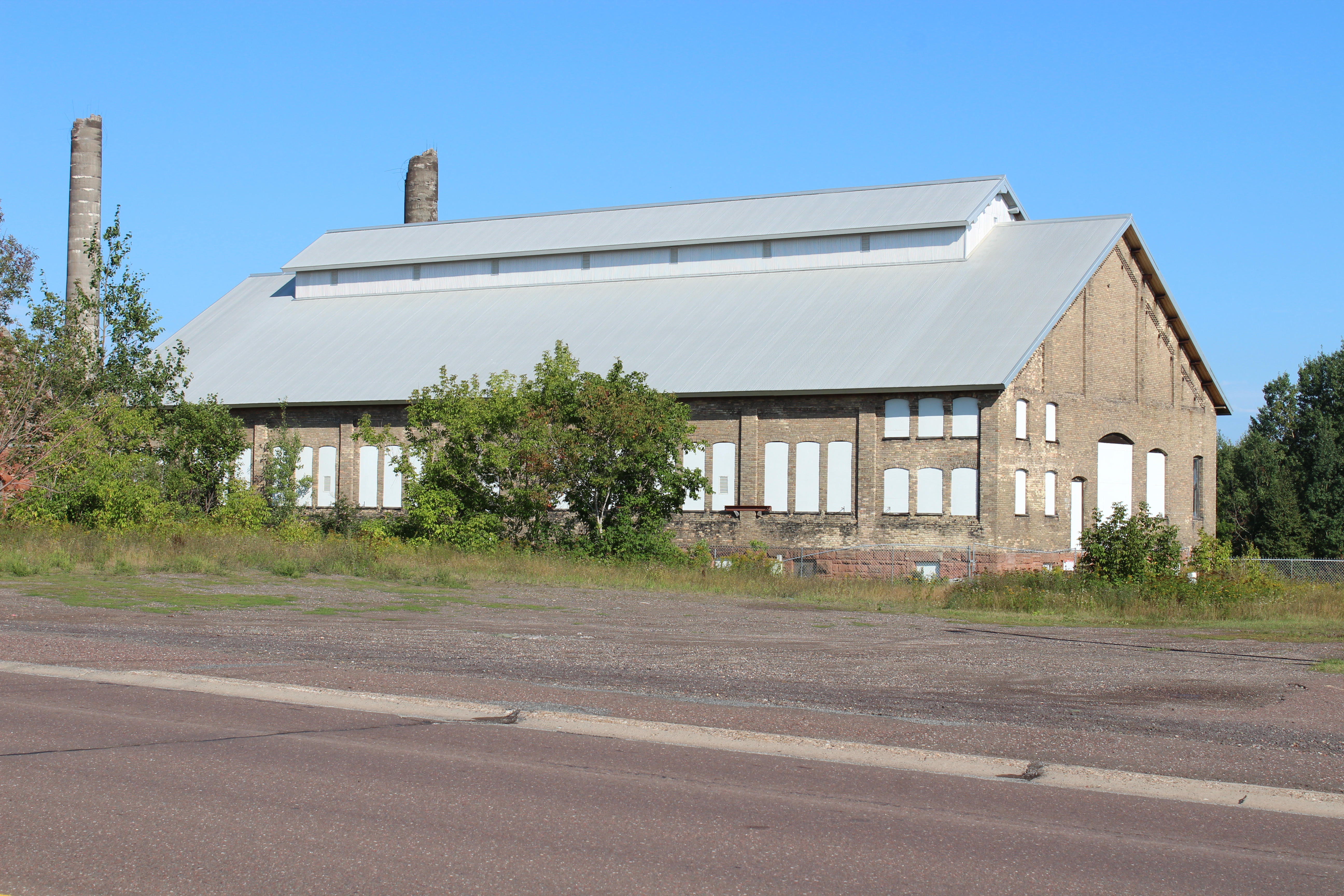 The machine shop building of the Quincy Mine. Its roof was replaced so that it could house the A. E. Seaman Mineral Museum, but the museum moved to a different facility instead.